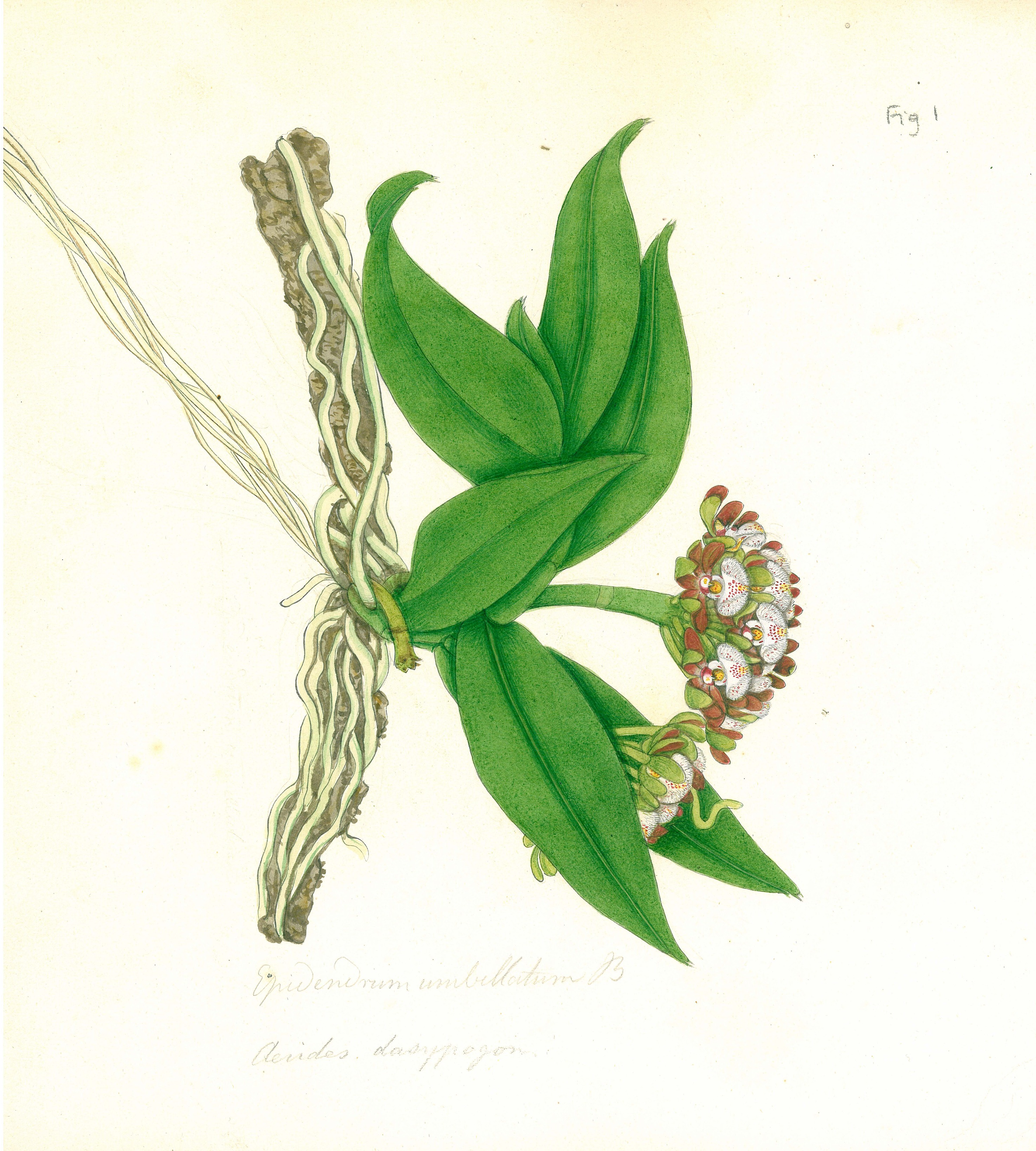 The drawing shows the type specimen of Gastrochilus dasypogon (Sm.) Kuntze (Basionym: Aerides dasypogon Sm). Buchanan-Hamilton himself named it Epidendrum umbellatum, but Smith described it as Aerides dasypogon in Rees's Cyclopædia in 1818.